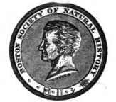 Logo of the Boston Society of Natural History, depicting Georges Cuvier. The society adopted the logo in 1842.